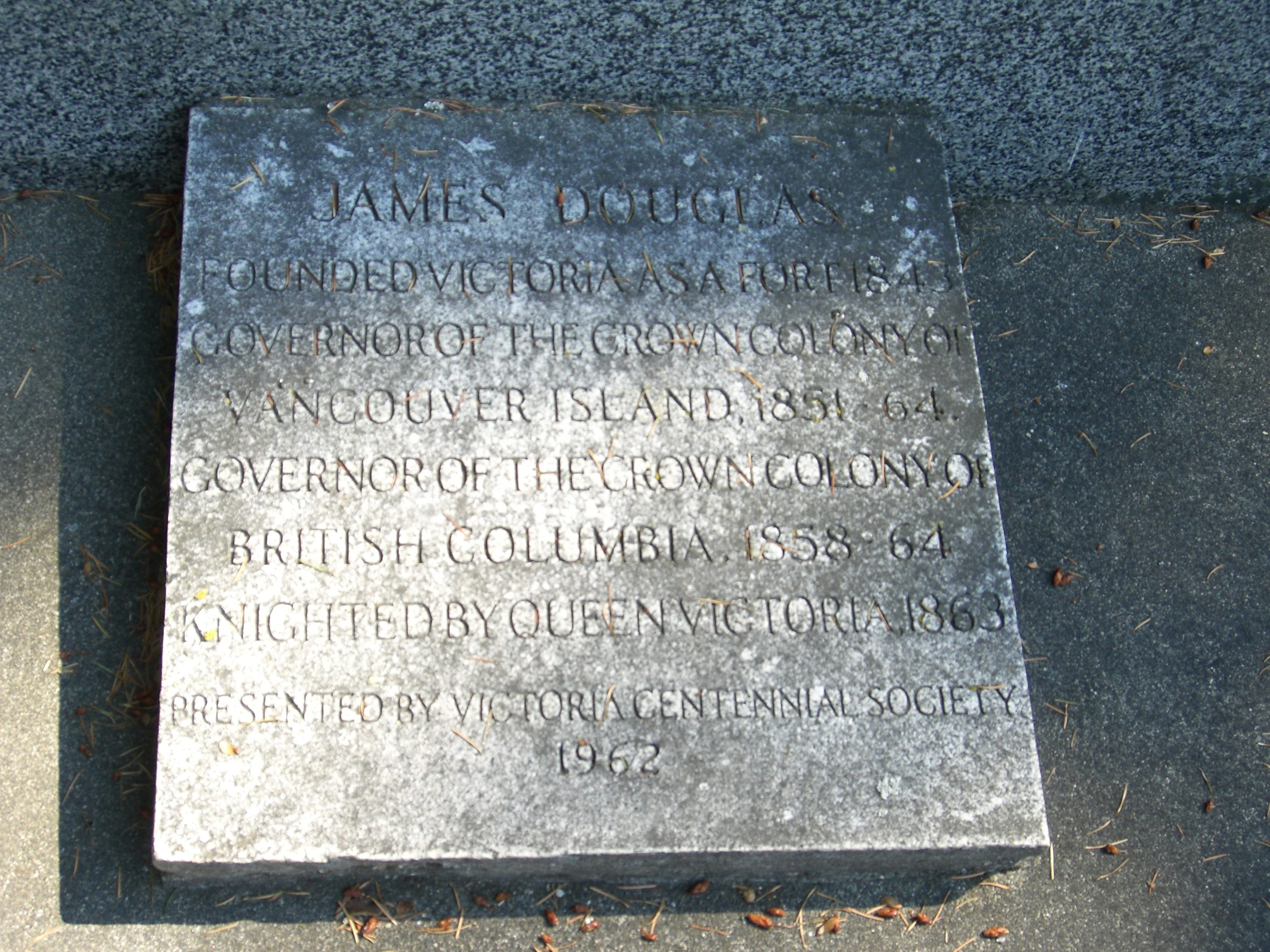 Grave marker of James Douglas at Ross Bay Cemetery, Victoria BC.